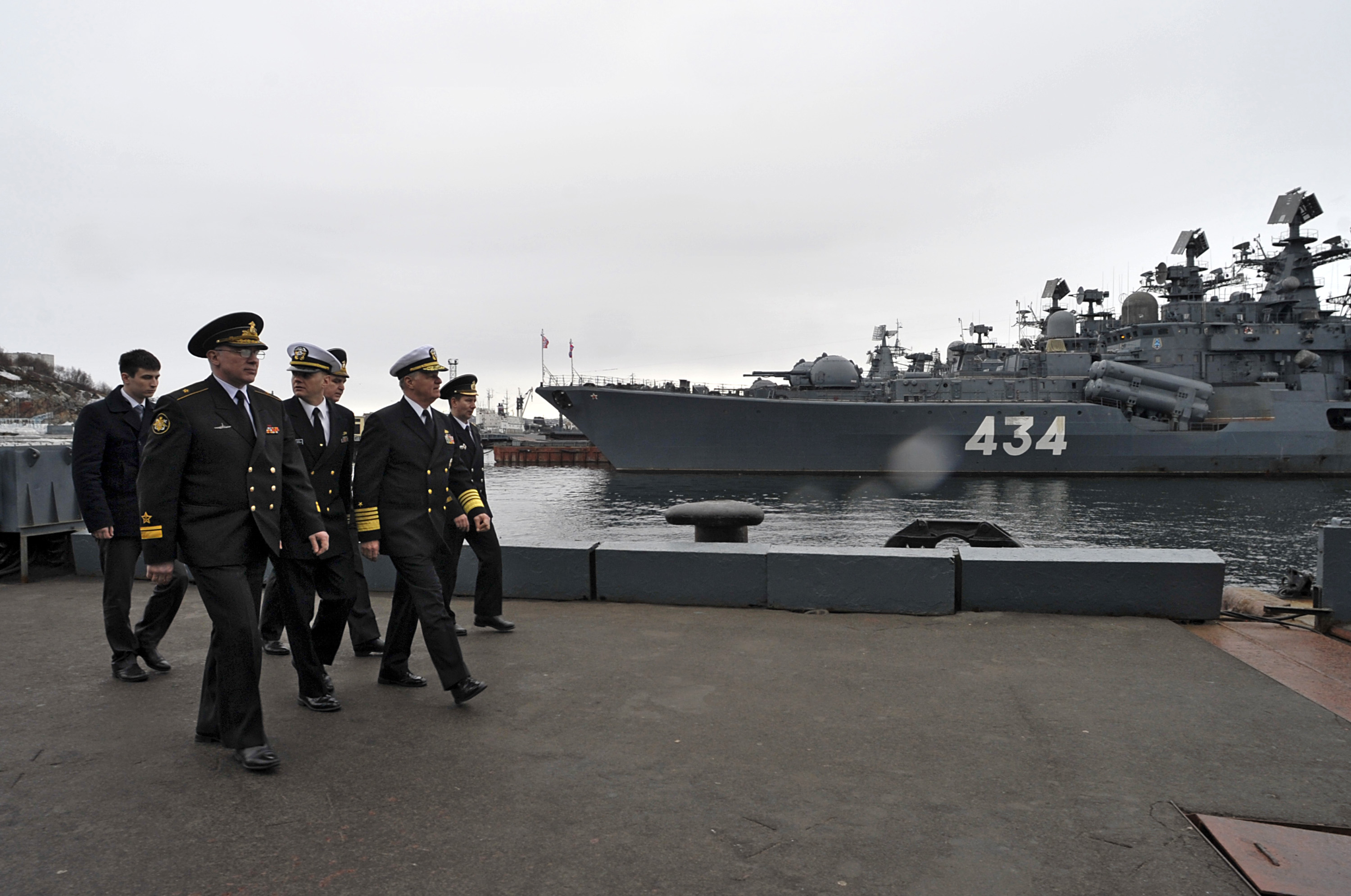 SEVEROMORSK, Russia (April 15, 2011) Chief of Naval Operations (CNO) Adm. Gary Roughead tours the Russian Northern Fleet with Vice Adm. Andrey Olgertovich Volozhinsky, acting commander of the Russian Northern Fleet in Severomorsk, Russia. (U.S. Navy photo by Chief Mass Communication Specialist Tiffini Jones Vanderwyst/Released)